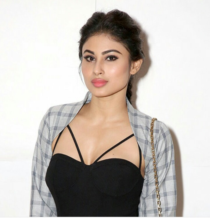 Mouni Roy graces the bash hosted by Farah Khan for Ed Sheeran, Nov 19, 2017